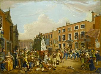 Oil on canvas painting depicting the ancient custom of rushbearing on Long Millgate in Manchester in 1821